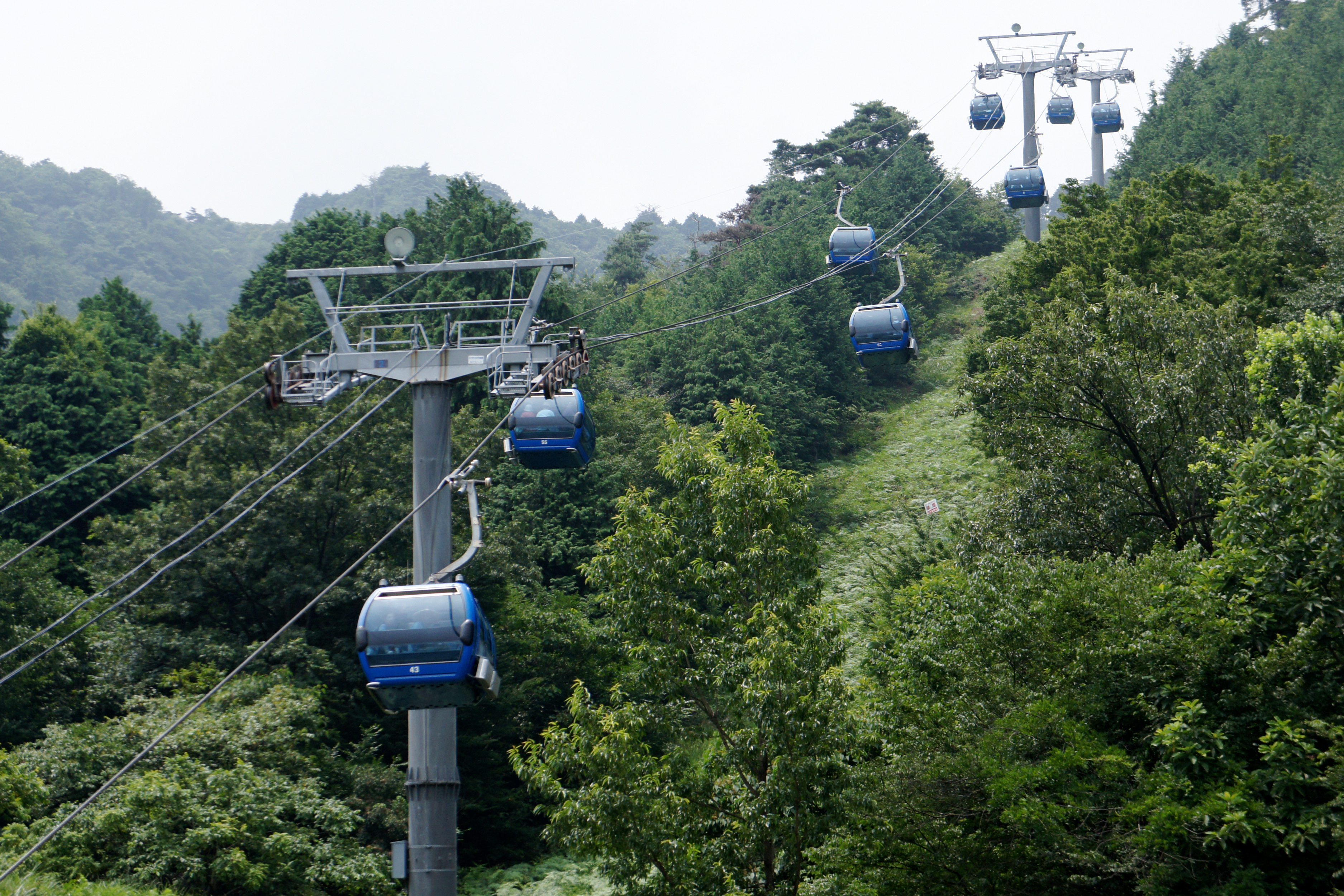 Mount Hakodate in Shiga prefecture, Japan.